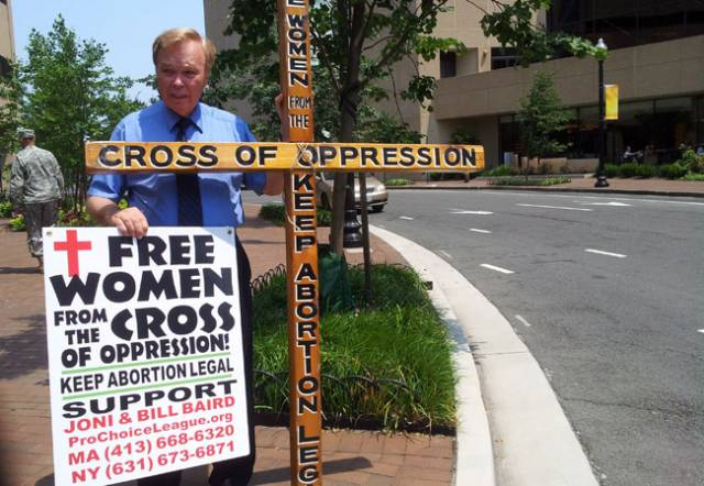 Bill Baird pickets the National Right to Life Convention in June 2012.